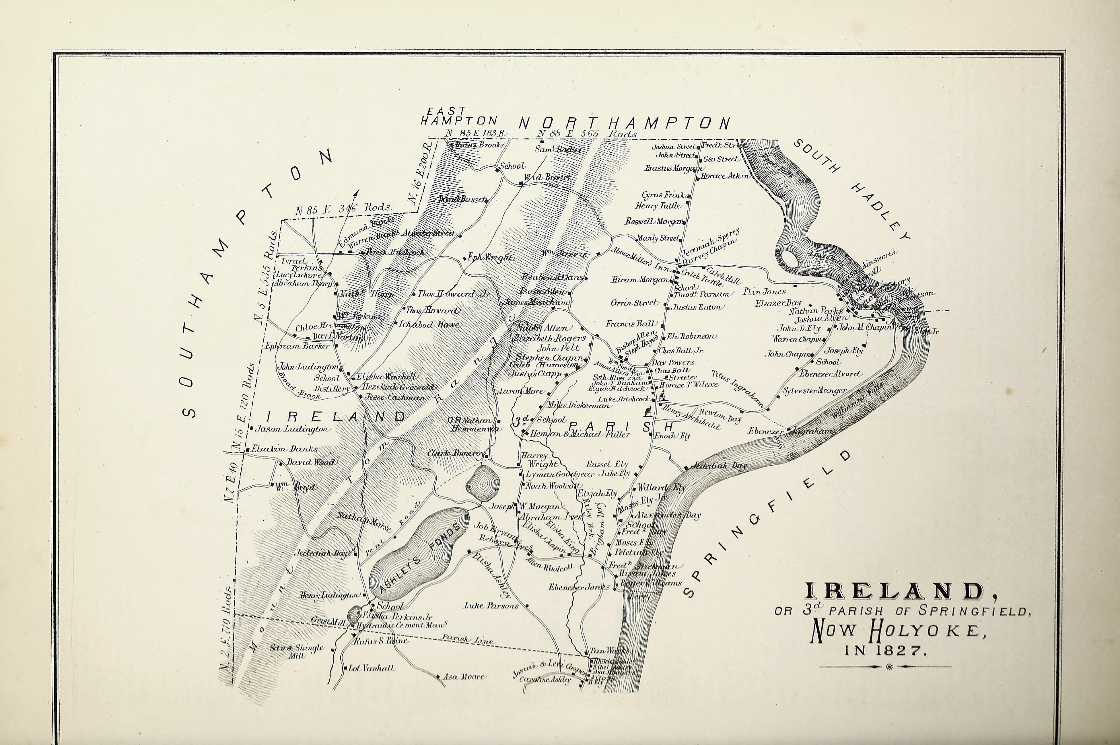 Map of Holyoke, Massachusetts before it was known by that name but rather as "Ireland", or the 3rd Parish of Springfield, oftentimes referred to as "Ireland Parish" hereafter due to the small "or" that appears on older maps such as this one. Ireland or 3d Parish became "Ireland Parish". Map is of 1827 layout however was printed in 1879.